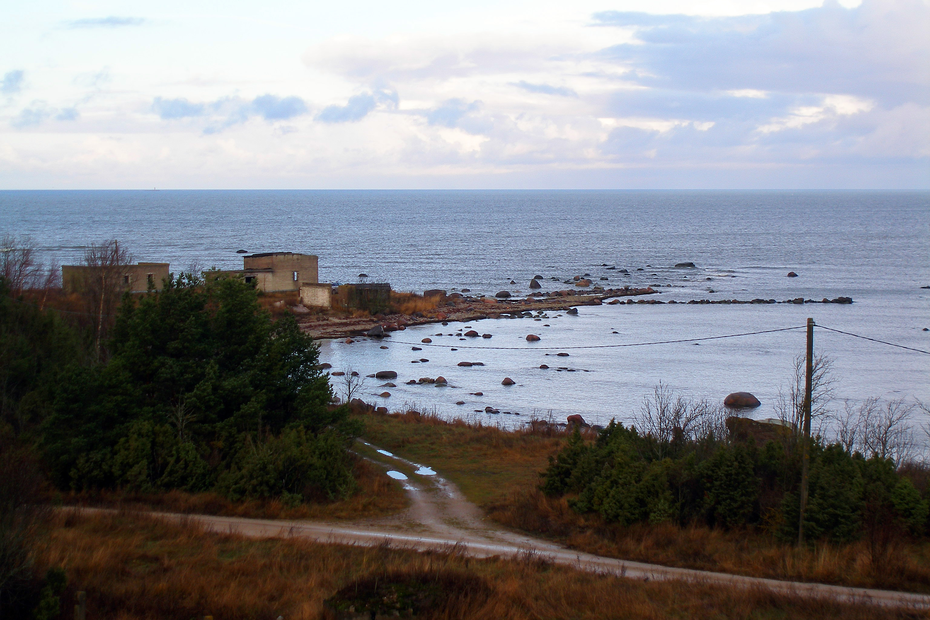 Coast of the Gulf of Finland near Vihterpalu, Estonia.